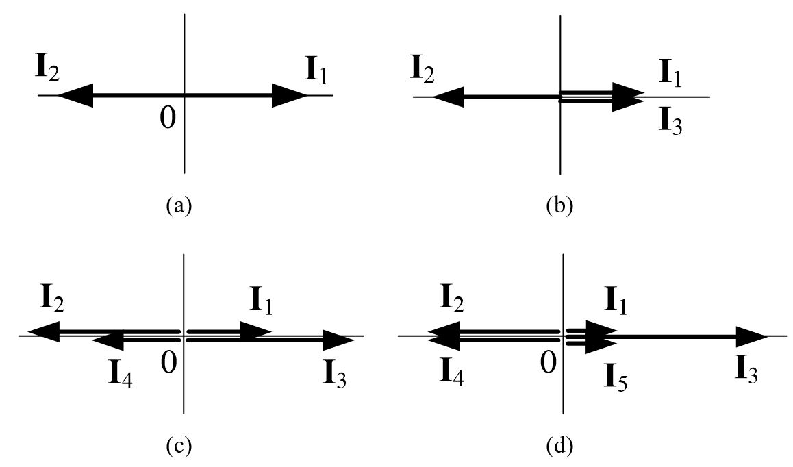 CGKang Image